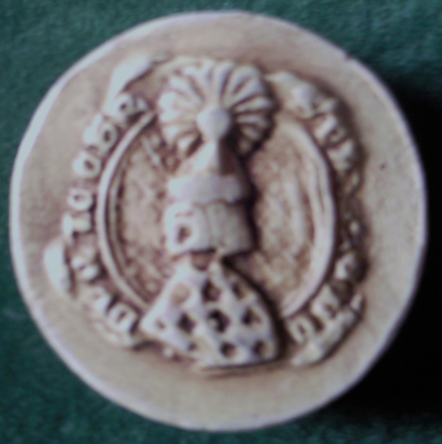 Seal of Knight Franconnet de DURAT (1230 ?)